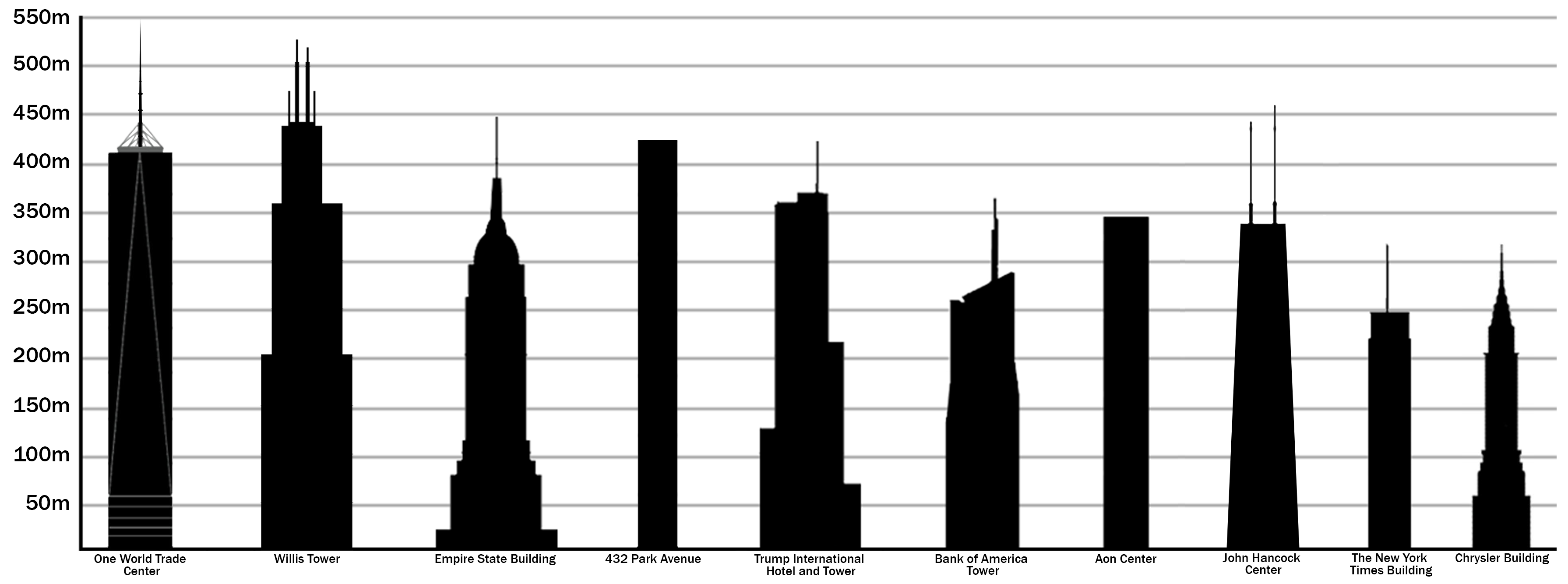 Tallest buildings in the United States.